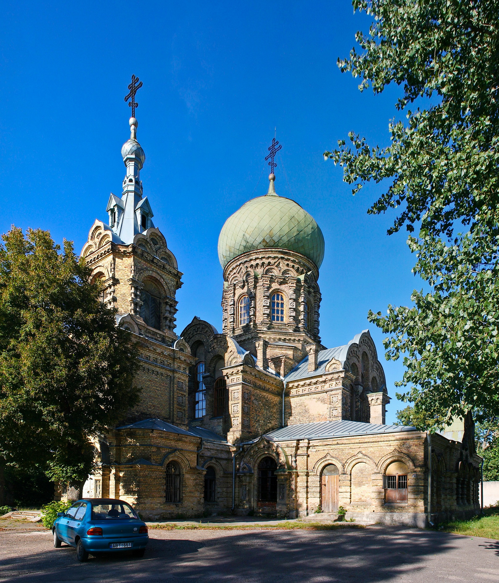 Orthodox Church of St. Alexander Nevsky in Naujininkai, Vilnius (Lithuania). Constructed in 1898.